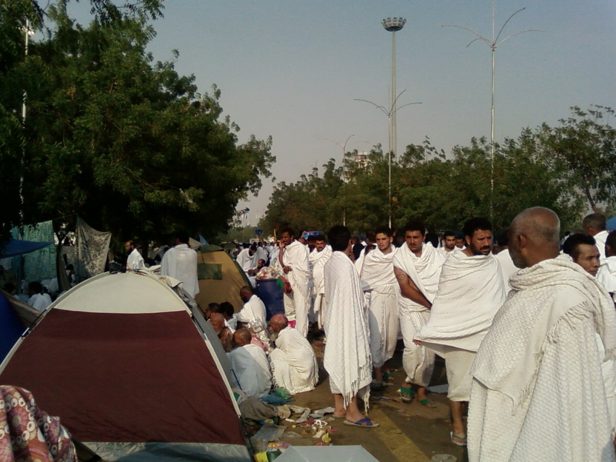 Mina, Saudi Arabia